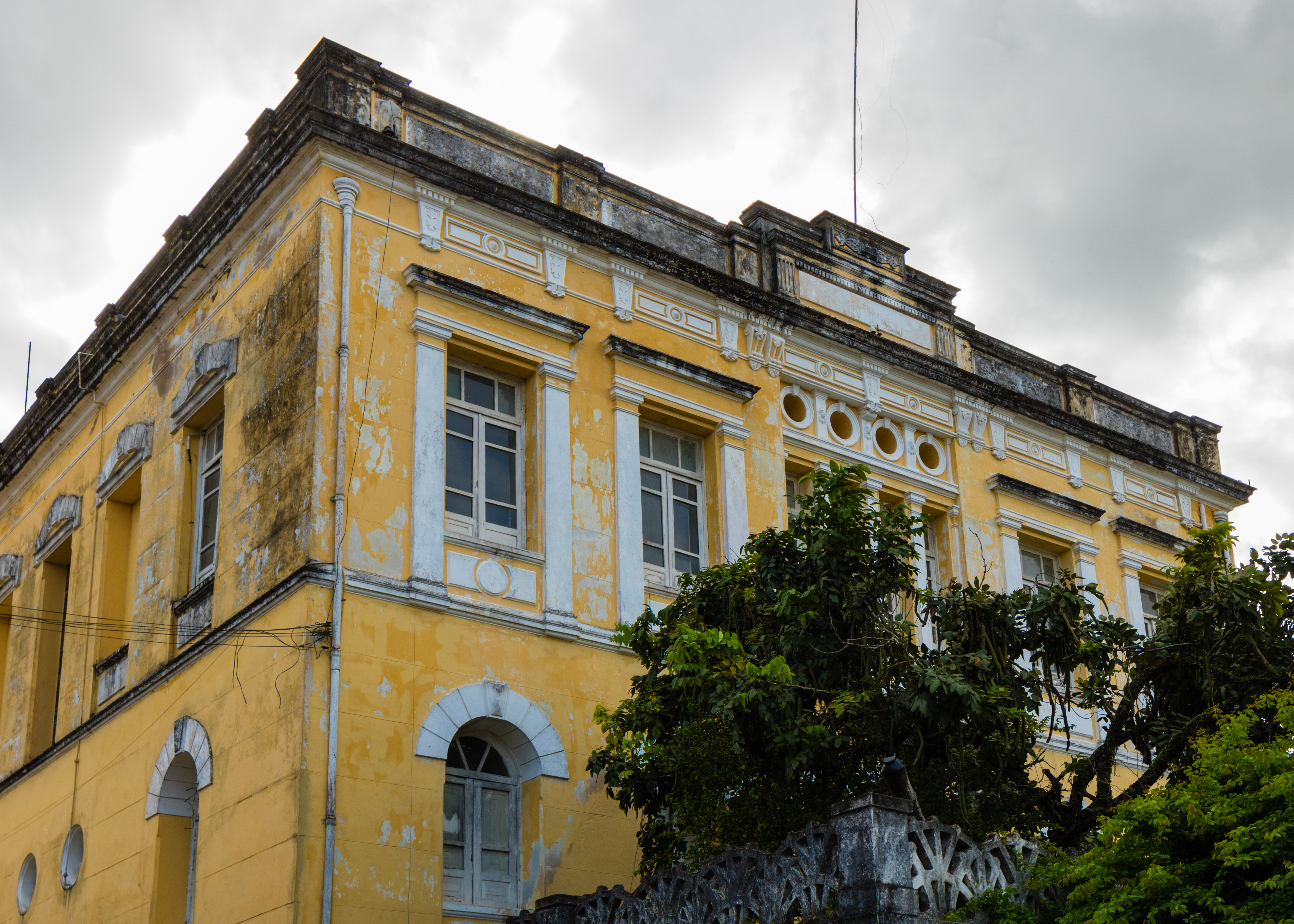 Prefeitura Municipal de São Félix, Bahia, Brazil.